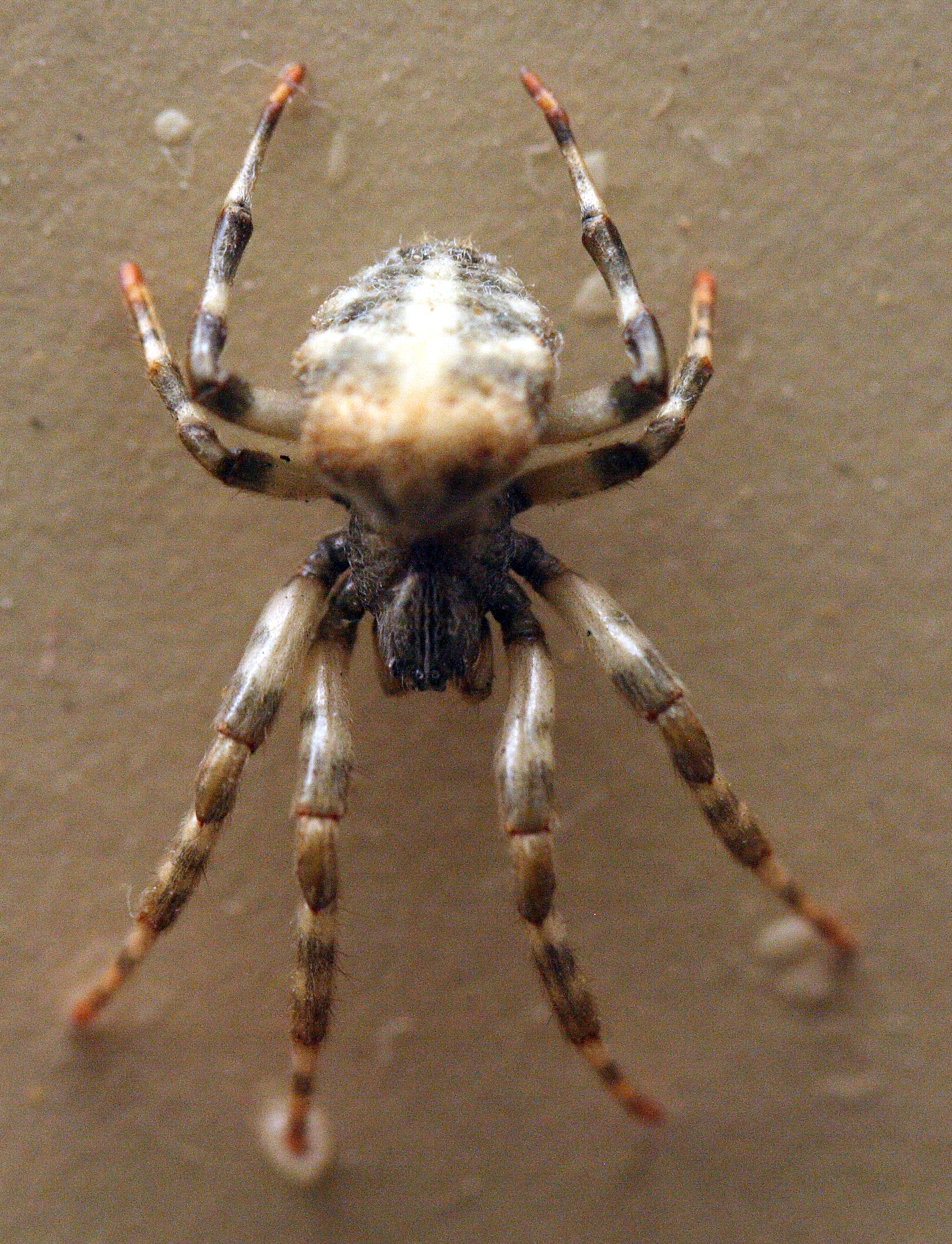 Specimen in the Australian Museum spider display.